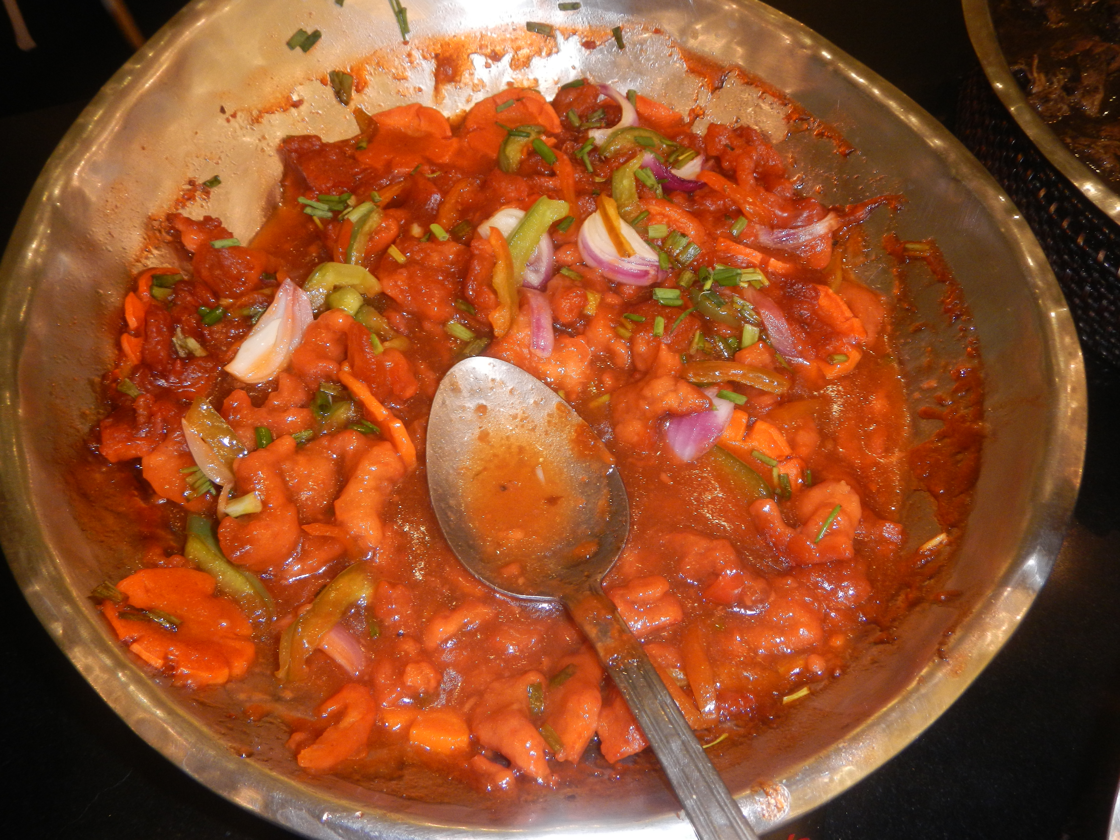 Buffet All-you-can-eat (AYCE) Cabalen List of Philippine restaurant chains Cabalen food products in the Philippines in SM City Baliuag Barangay Pagala 14°58'14"N 120°53'26"E Baliuag, Bulacan, Bulacan province (accessed from Cagayan Valley Road, Baliuag-Pulilan-Guiguinto, Bulacan) Pan-Philippine Highway, also known as the Maharlika "Nobility/freeman" Highway or Asian Highway 26, Cagayan Valley Road (Note: Judge Florentino Floro, the owner, to repeat, Donor Florentino Floro of all these photos hereby donate gratuitously, freely and unconditionally all these photos to and for Wikimedia Commons, exclusively, for public use of the public domain, and again without any condition whatsoever).